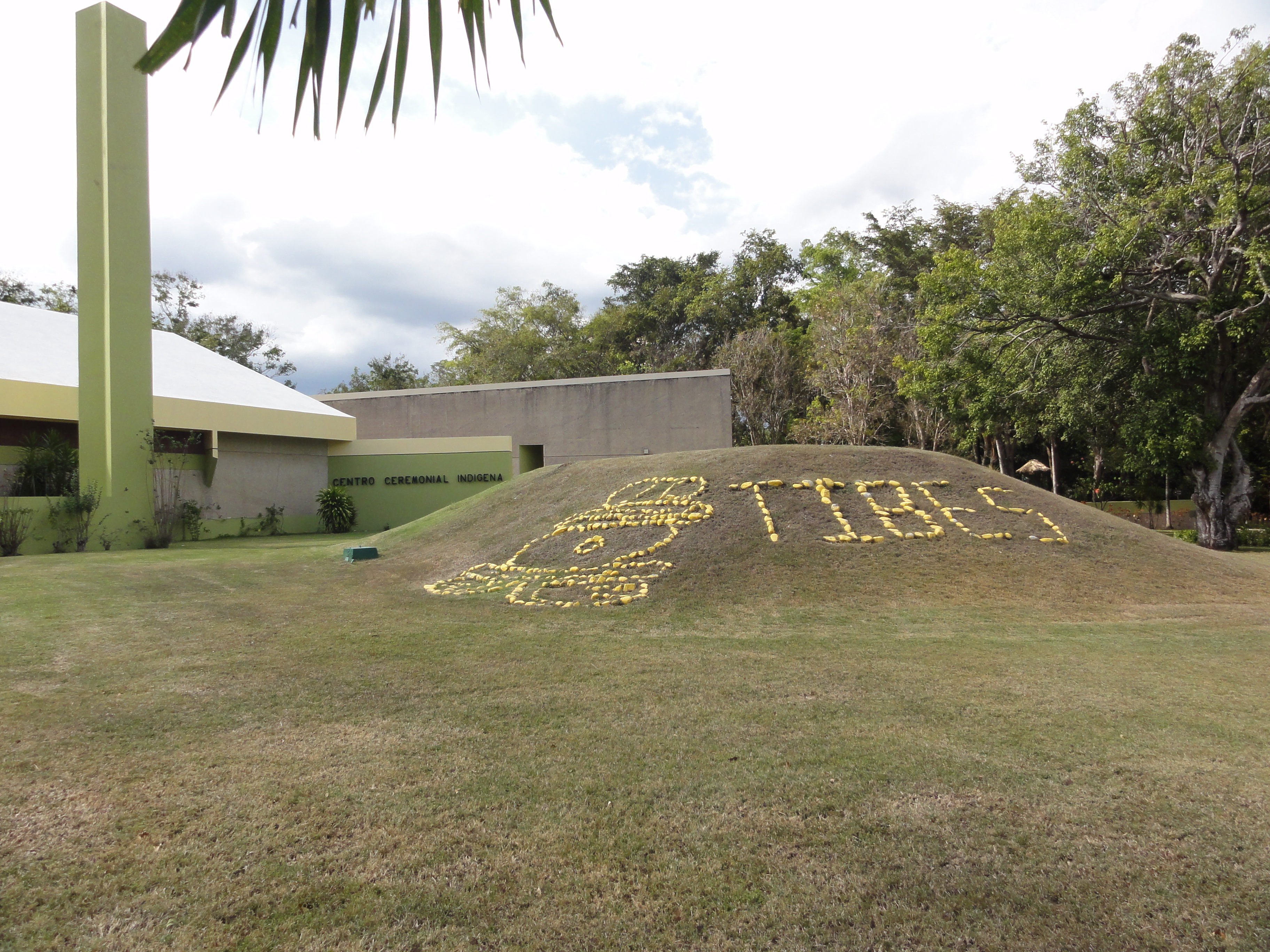 Museo Centro Ceremonial Indigena de Tibes, Bo. Tibes, Ponce, PR (DSC01993)